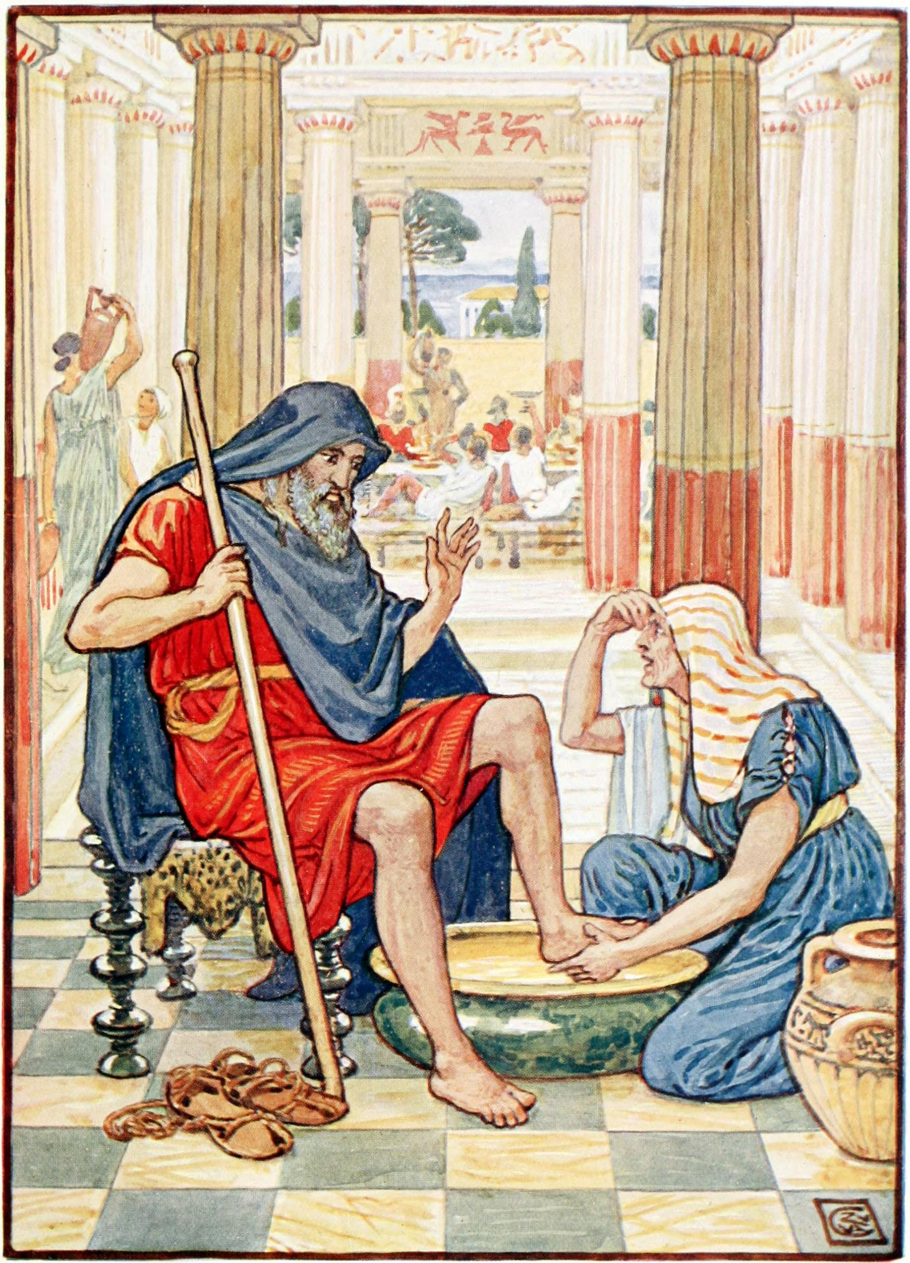 These stories from the history of ancient Greece begin with myths and legends of gods and heroes and end with the conquests of Alexander the Great. The book is accessible and well organized, but it is considerably more detailed than some other introductory texts. It covers Greek history from the age of Mythology to the rise of Alexander, but because of its length we do not recommend it for 5th grade or younger. It is an excellent reference, thoroughly engaging, and a good candidate for a somewhat older student's first foray into Greek history.